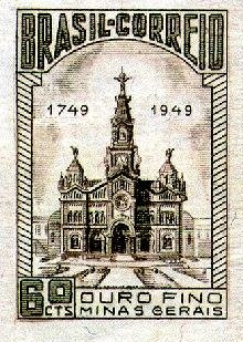 Stamp commemorating Bicentanário City Fine Gold B